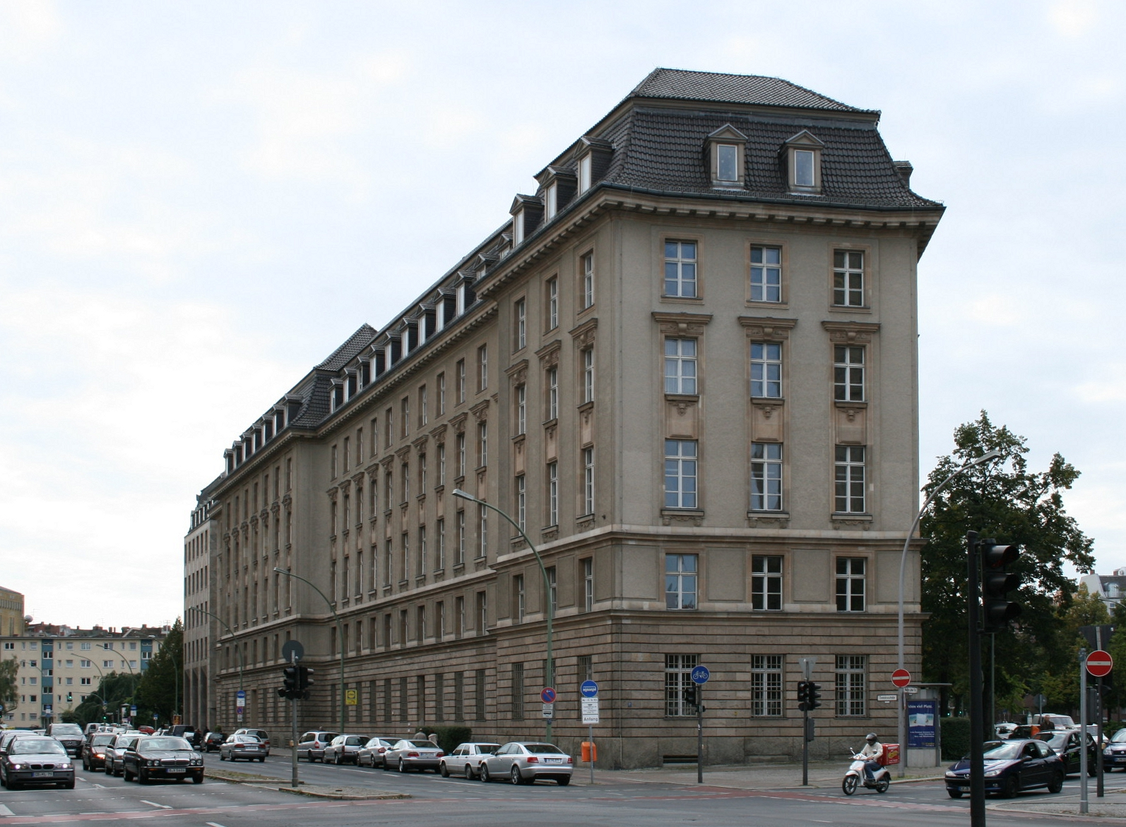 Senate Department for Economy, Technology and Research in Berlin-Schöneberg.